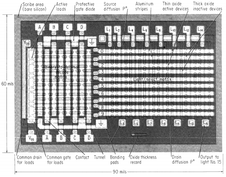 Photograph of a MOS Binary-to-Decimal Decoder circuit designed by Bob Biard and Robert Crawford at Texas Instruments Inc. Within the matrices, aluminum leads over the oxide surface cross at right angles to the diffused regions.